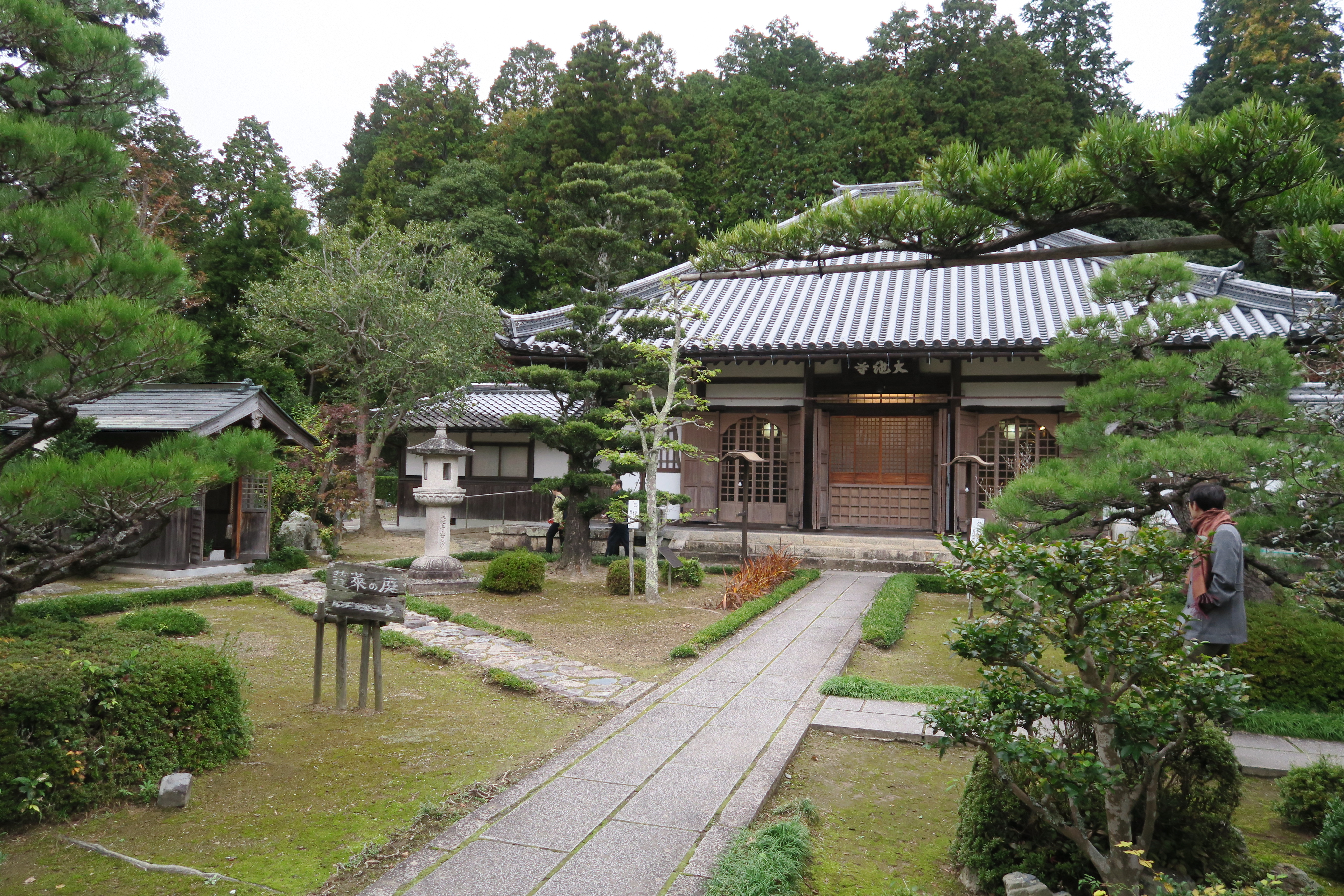 Daichi-ji, Koka, Shiga, Japan